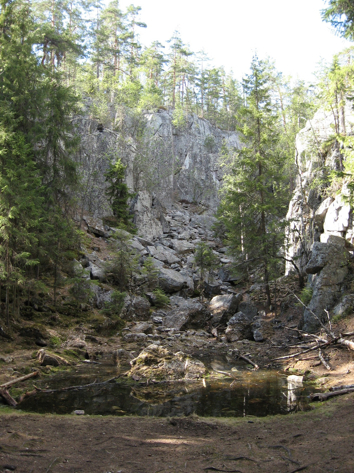 Rock formation in Hollola, Finland